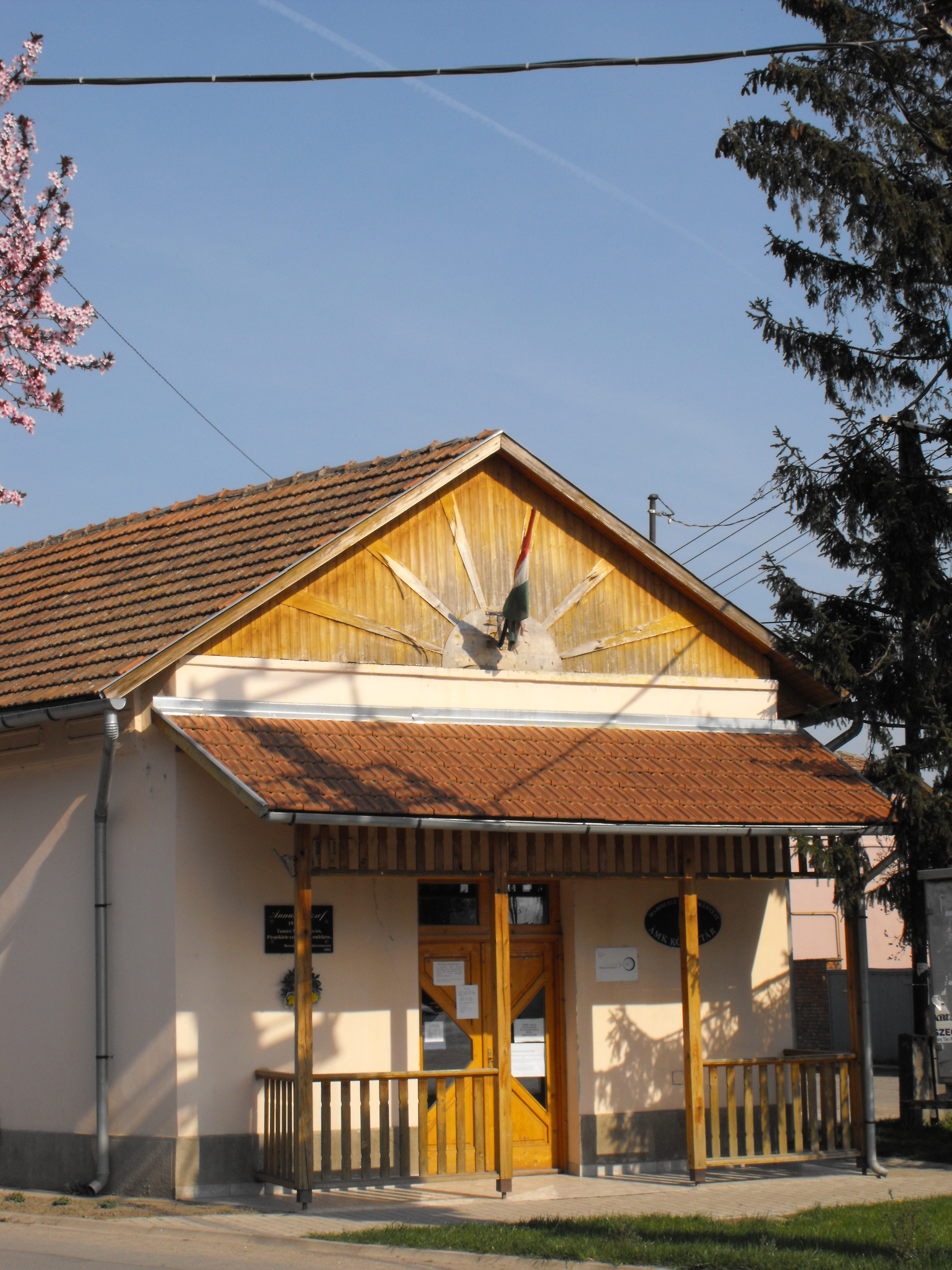 The building of the library in Maroslele, Hungary.